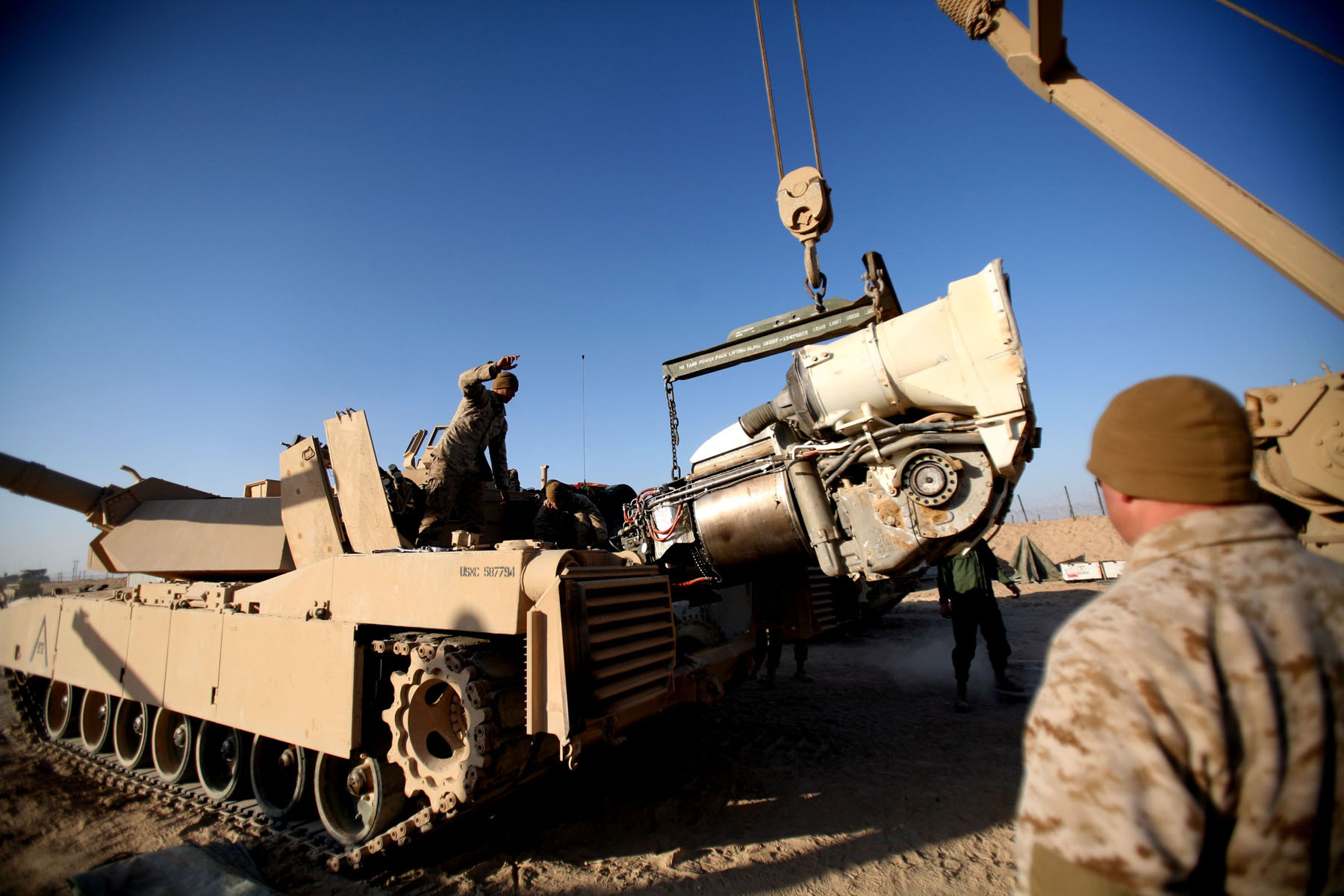 Cpl. Steven D. Bowling, a 21-year-old tank mechanic from Lexington, N.C, with Alpha Co., 2nd Tank Battalion, Regimental Combat Team 5, rigs the crane of a M88 Hercules to the power pack (engine and transmission) of an M1A1 tank and signals for it to be pulled out Dec. 29. Oil filters and seals were replaced as part of the semi-annual training performed on the tank twice a year.